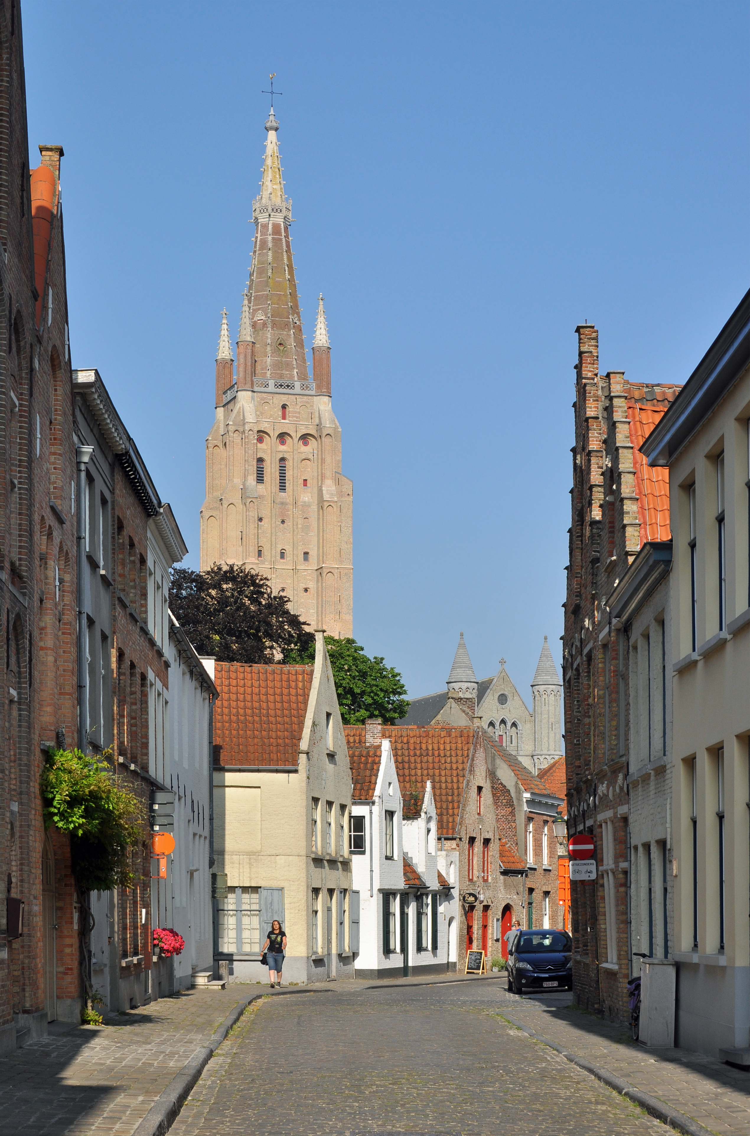 Bruges (Belgium): Goezeputstraat